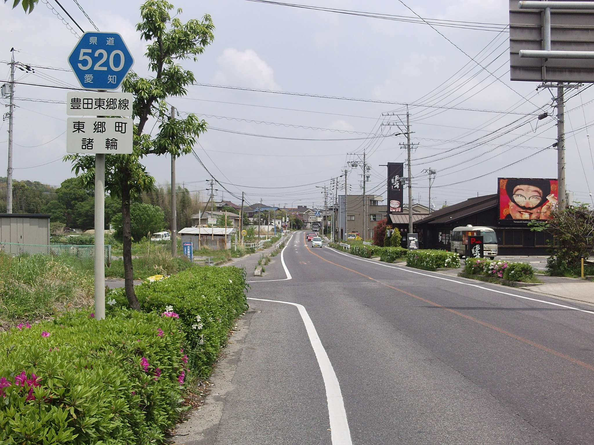 Aichi prefectural road No.520 in Morowa, Togo-cho, Aichi-gun, Aichi.